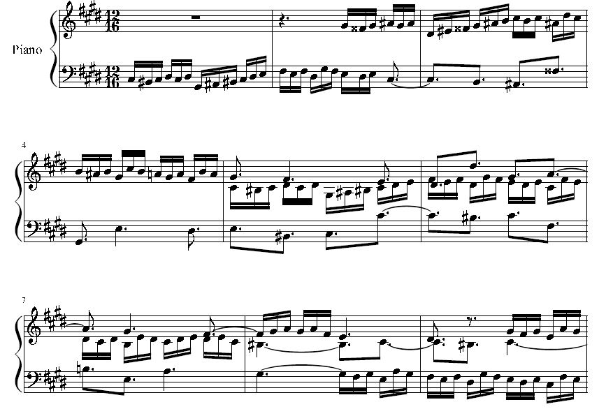 The first couple bars of fugue.